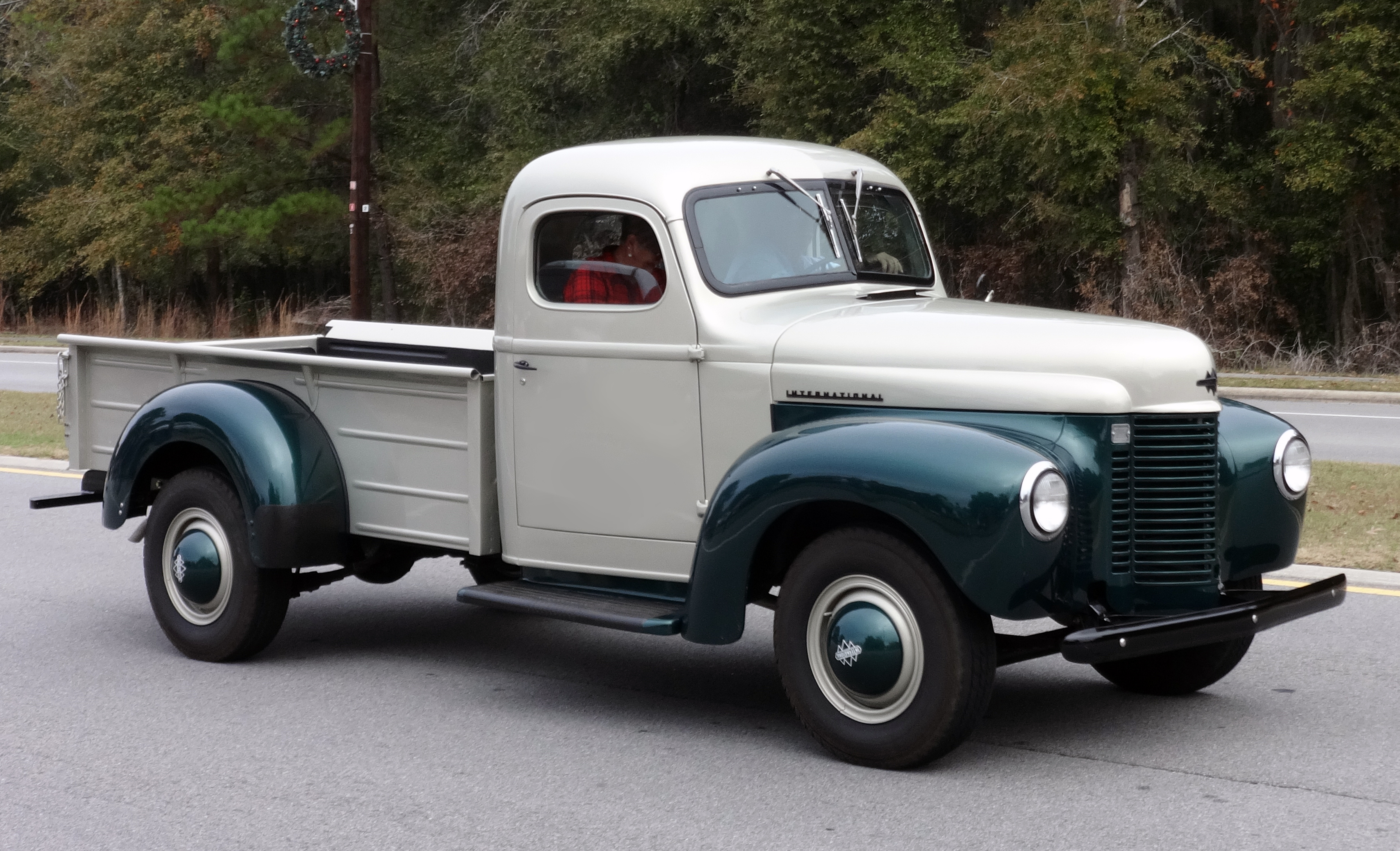 International K-series pickup truck in Georgia, looks to be a 1942 or 1945 K-3 (minimal brightwork, bigger steel wheels unique to the K-3).